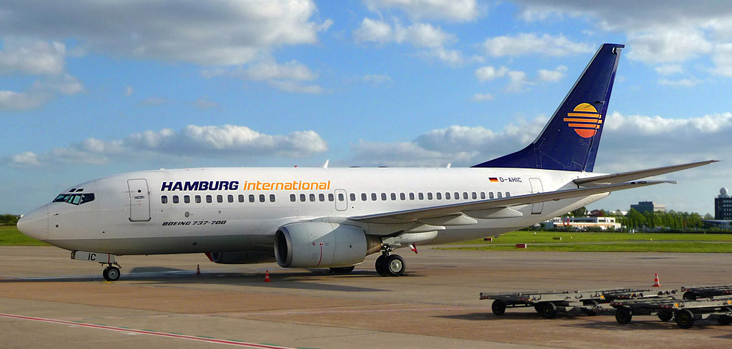 A Boeing 737-700 of Hamburg International airlines, seen in Hamburg.